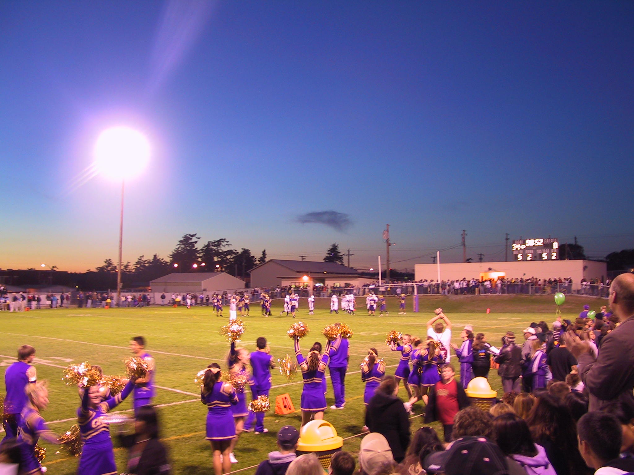 Oak Harbor High School Football in the old Memorial Stadium during the 2006-2007 football season.